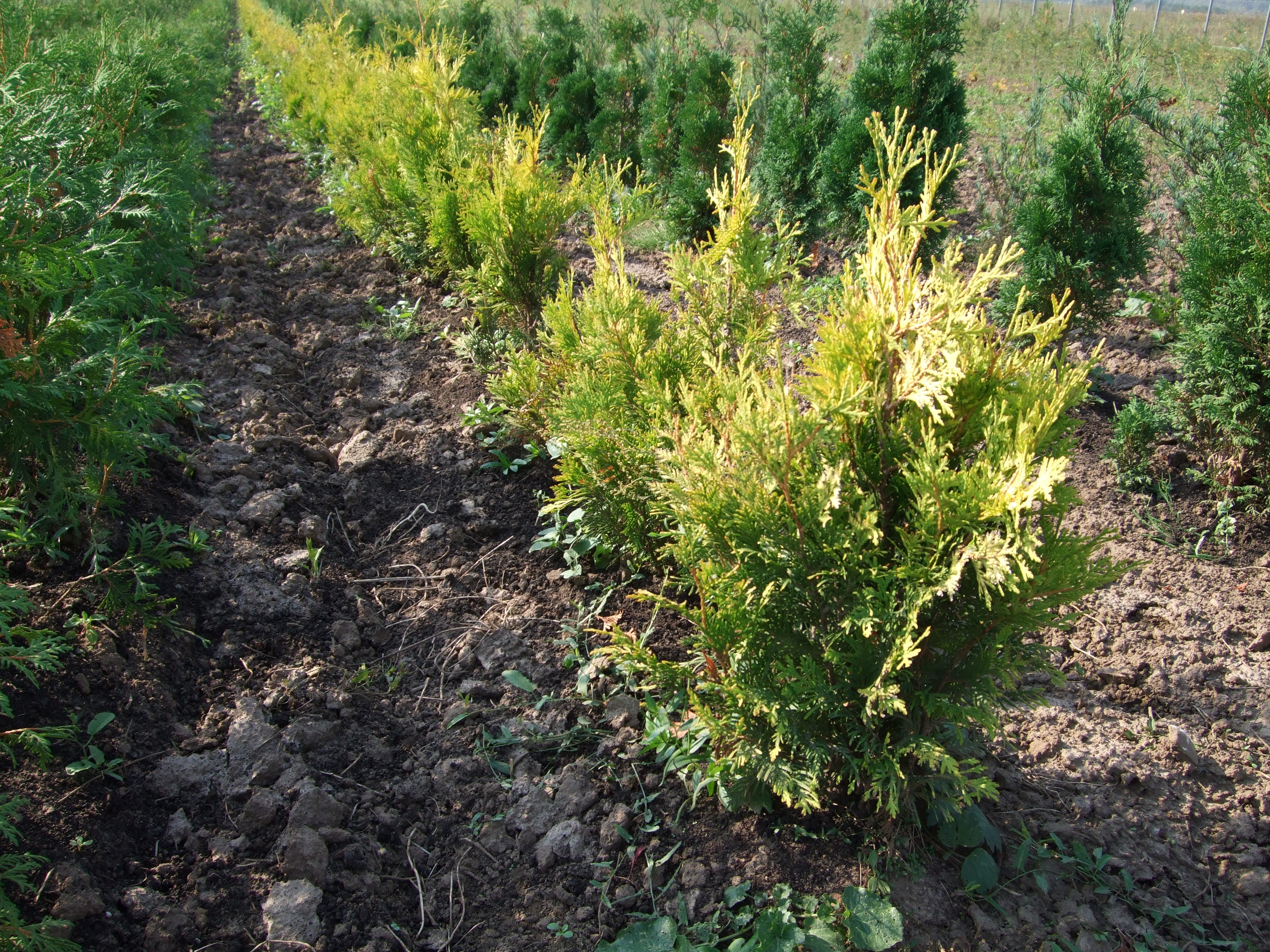 Thuja occidentalis